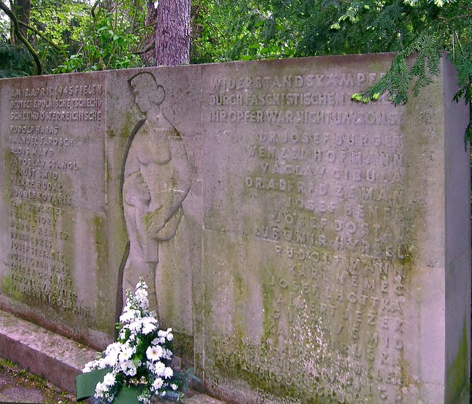 Ostfriedhof Leipzig - the memorial to the victims of the massacre 13th April 1945